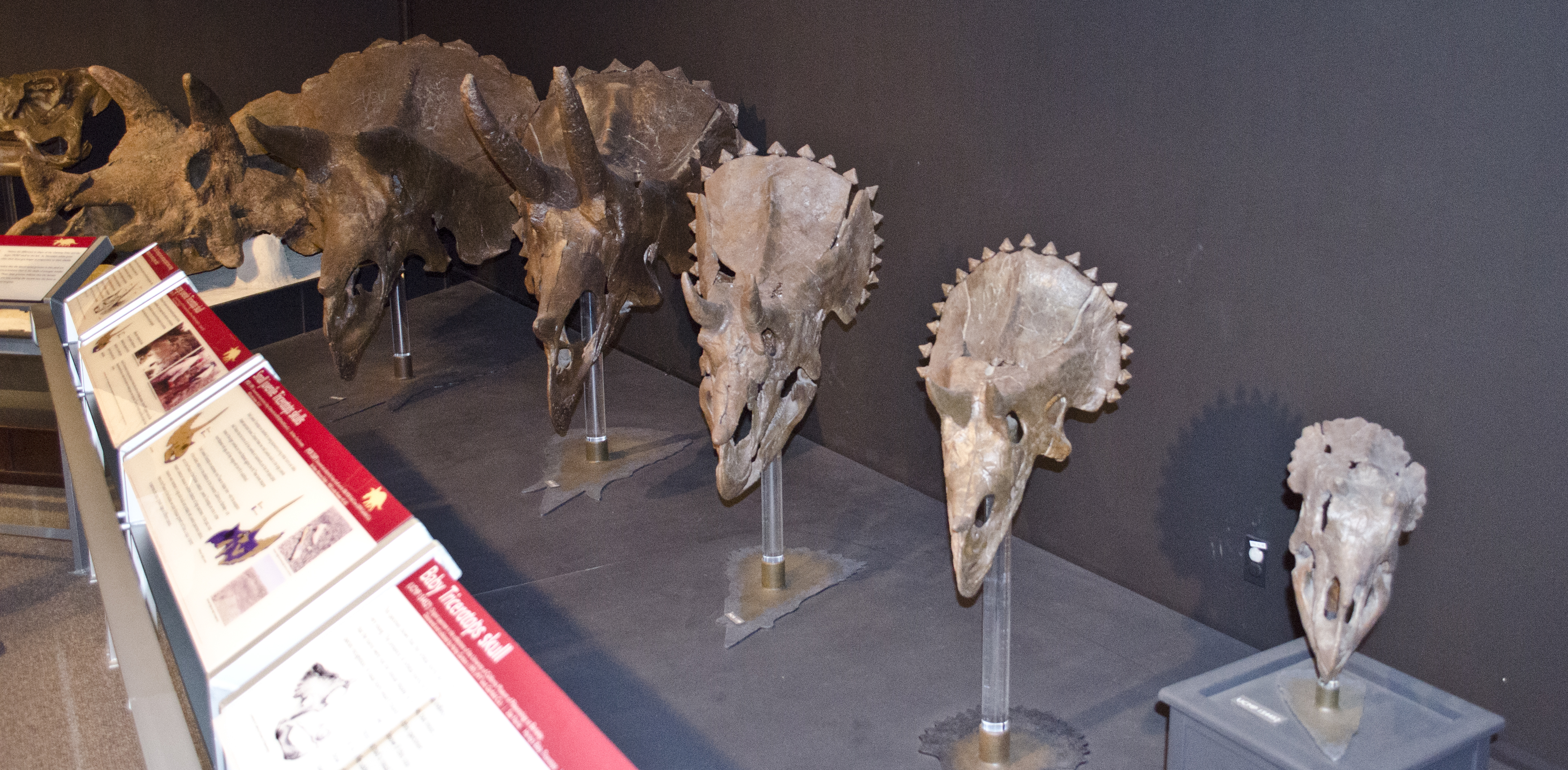 A display of Triceratops horridus skulls, from baby to adult, at the Museum of the Rockies in Bozeman, Montana. Dinosaurs are classified into four growth stages: baby, juvenile, subadult, and adult. The skull to the far right is a baby, collected in Garfield County, Montana. (This is a cast.) The second and third skulls from the right are juveniles, one larger than the other. (The one second from the right was found in Garfield County, Montana. The one third from the right was found in McCone County, Montana.) Note the triangular frill nodules (not yet fused with the frill), the backward-curving horns, the longer snouts, and the lack of holes in the frill. The fourth from the right is a subadult (teenager). Although the horns still curve backward, the frill nodules are fusing with the frill and the snout is showing large "excavation" (areas of no bone). The final skull on the far left is an adult. All of these skulls were collected in Montana.